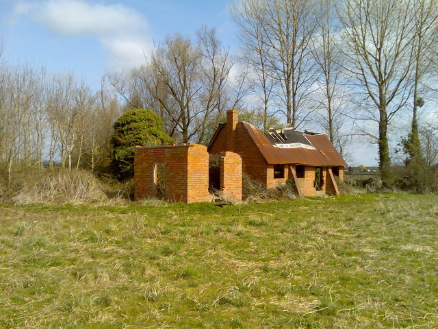 WWII Building Part of Berrow Satellite Landing Ground A derelict building that once supported the "Number 5 Satellite Landing Ground". There is a similar building in the area by the caravan park.